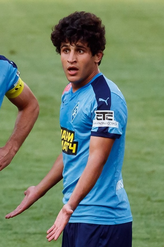 Safaa Hadi with PFC Krylia Sovetov Samara in a game against FC Lokomotiv Moscow.